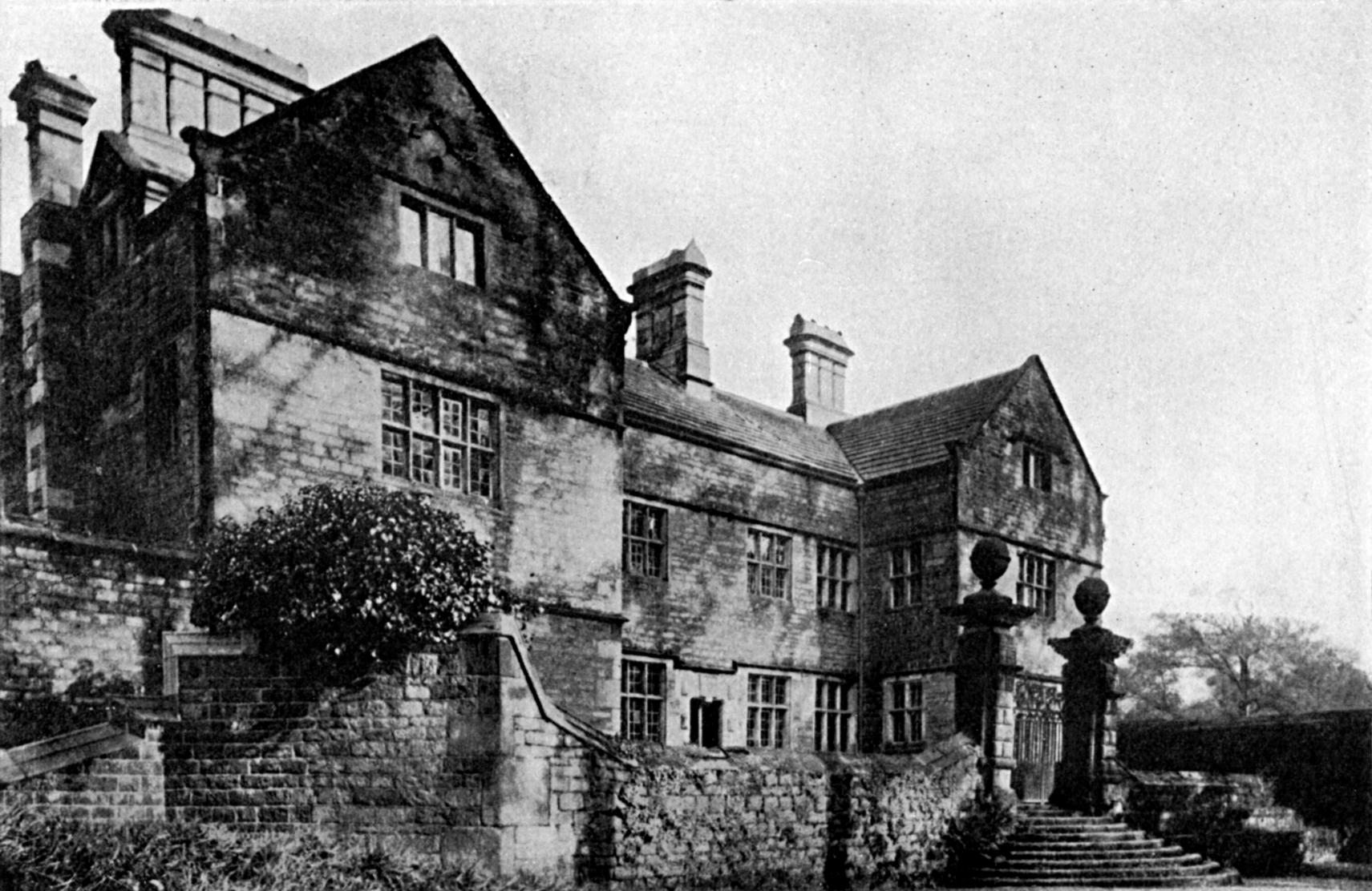 Derwent Hall, Derbyshire where Charles Balguy was born. Derwent Hall was built in 1672 by the Belguy family, and at some point passed to the Duke of Norfolk. In 1931 it became a youth hostel, but in 1945 the Derwent dam was completed and the valley was flooded; Derwent Hall is now under water, although in 1976 and 1989 it may have reappeared briefly when the water level fell. Some of the original woodwork is now in Thornbridge Hall.